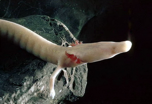 Olm (Proteus anguinus) - closeup of the head.